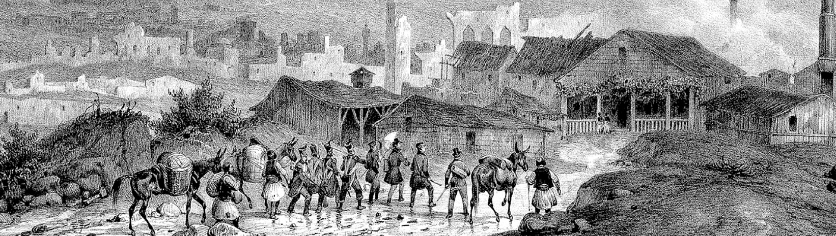 Lithograph (detail) by Prosper Baccuet representing the scientists of the Morea Expedition entering in 1829 Tripolitza ("as it was when the Commission visited the ruins") (1836)